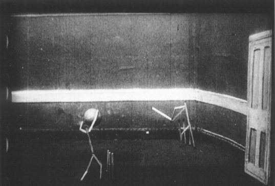 Screen shot from the short film Animated Matches: Cricket (1914).